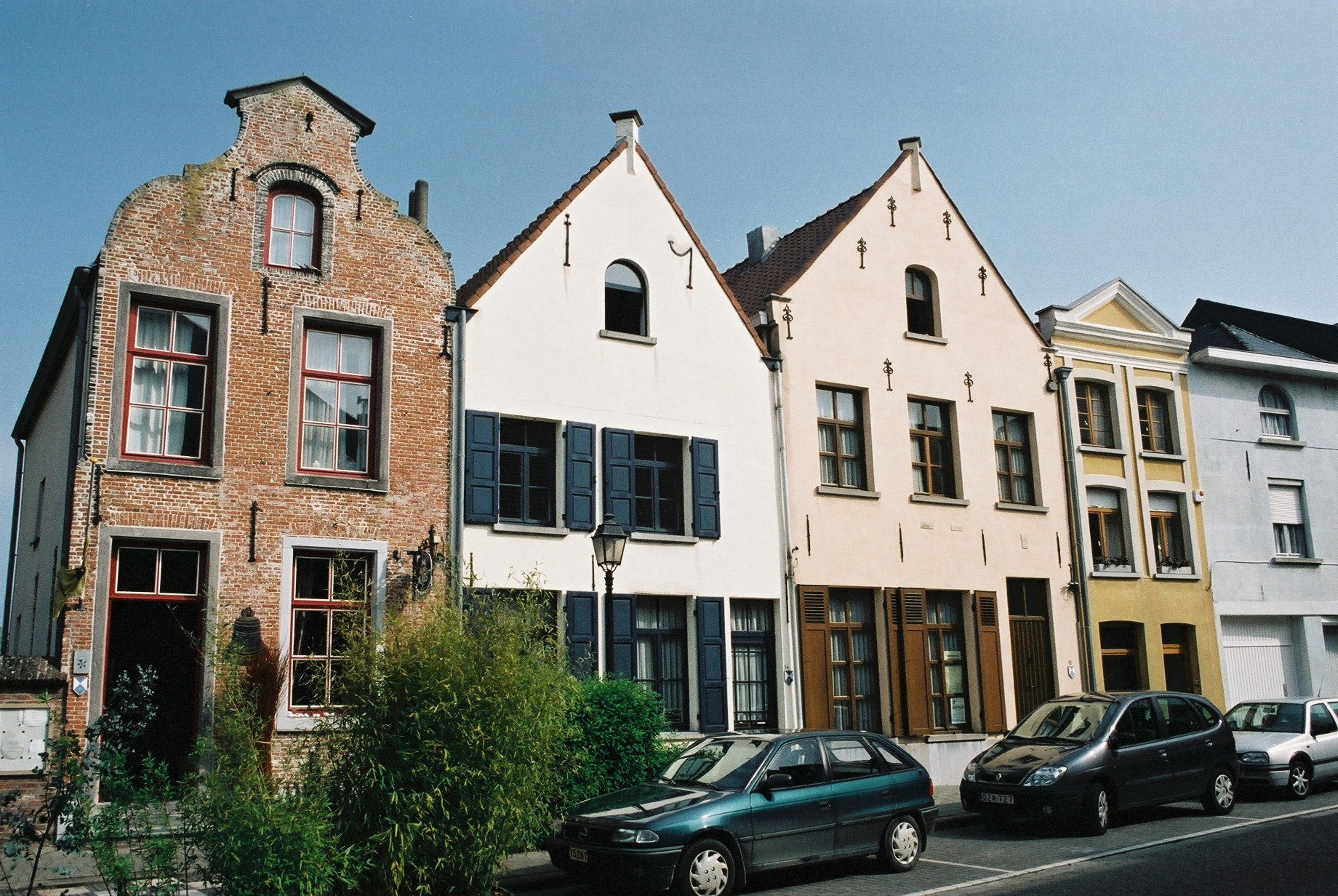 Monumental 16th century houses in the Kerkstraat (Sint-Amands) Photo: Frans De Leeuw